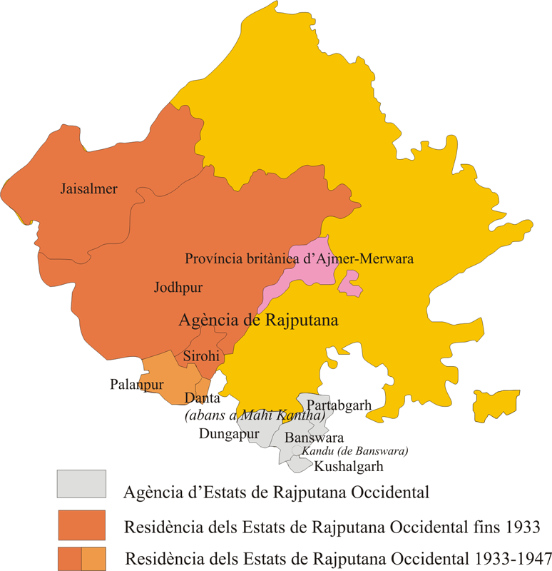 Western Rajput states agency and residency (since 1906)